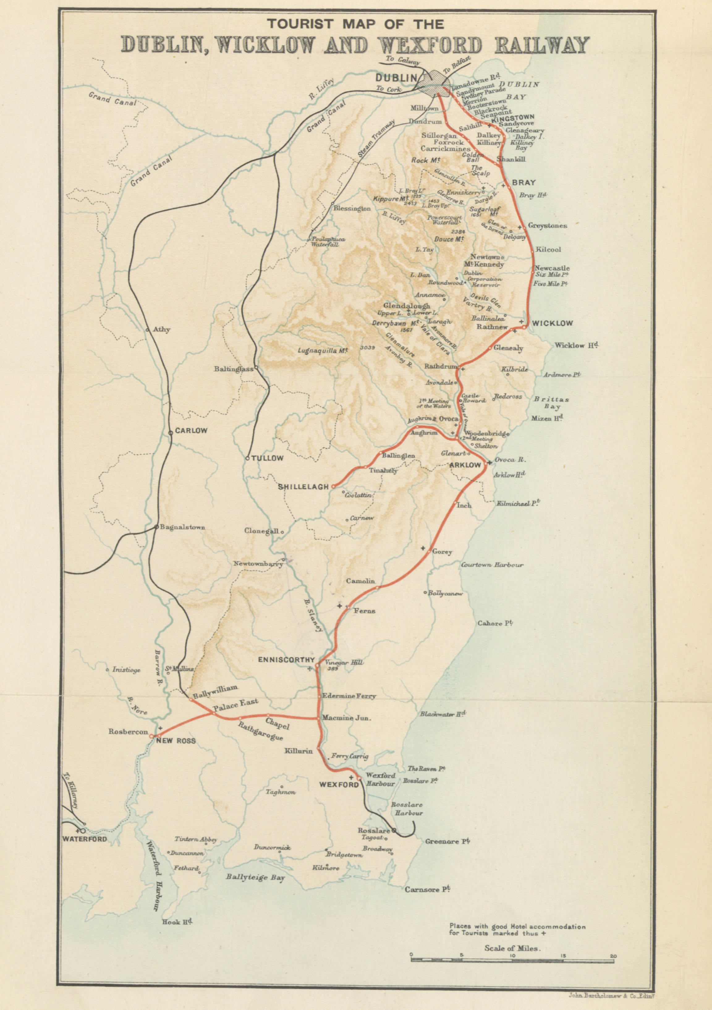 Image of 'Official Tourist Guide of the Dublin, Wicklow, and Wexford Railway.